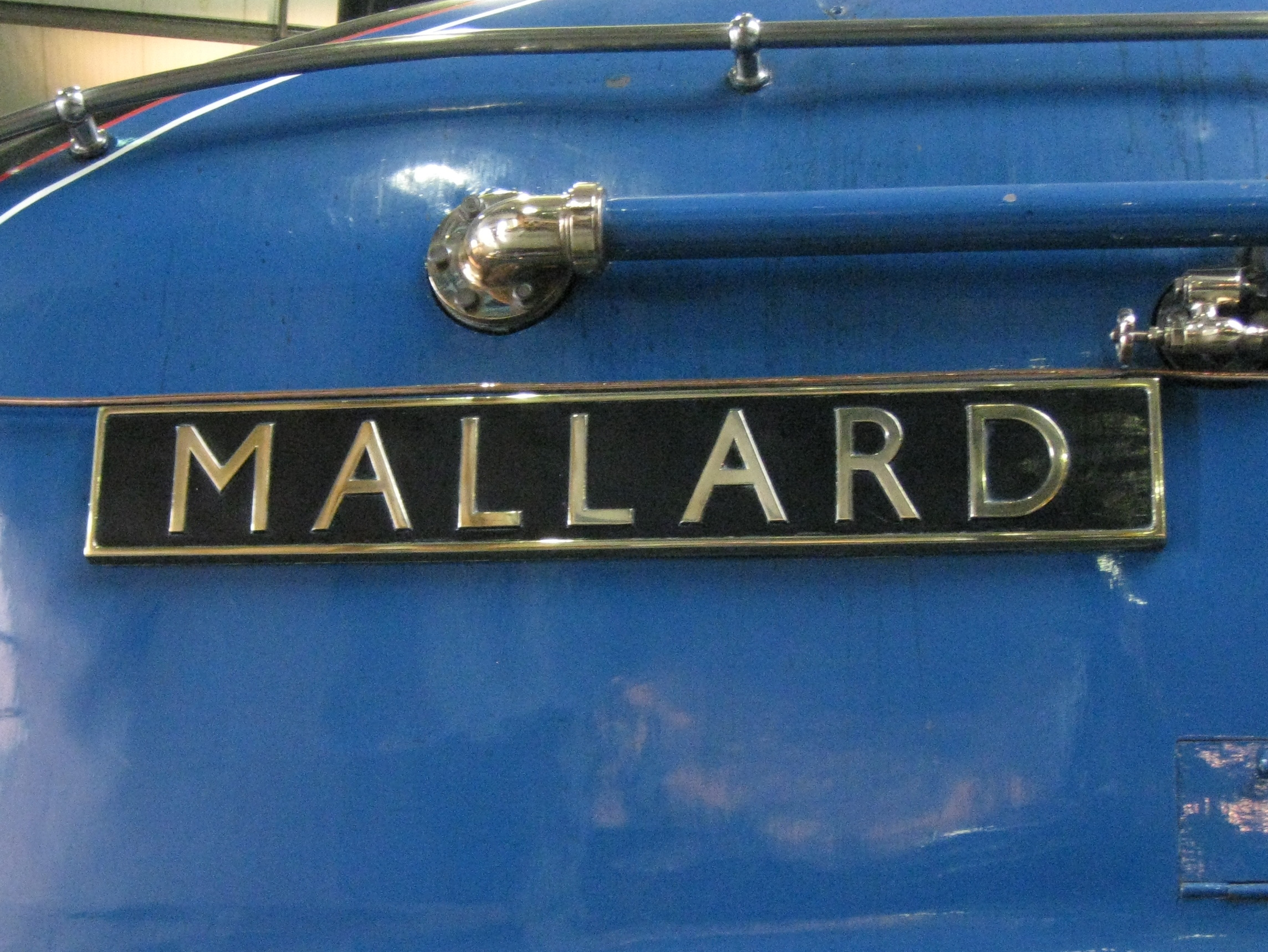 LNER 4-6-2 A4 Class No. 4468 'Mallard'